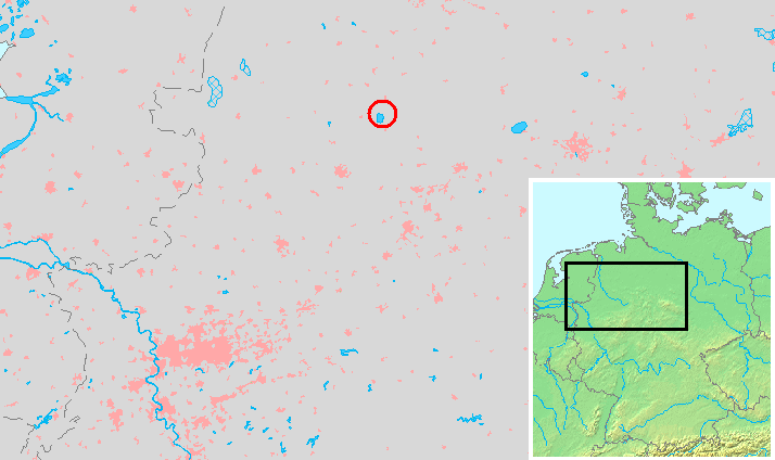 Locator maps of lakes in Germany : Location Dummer.PNG